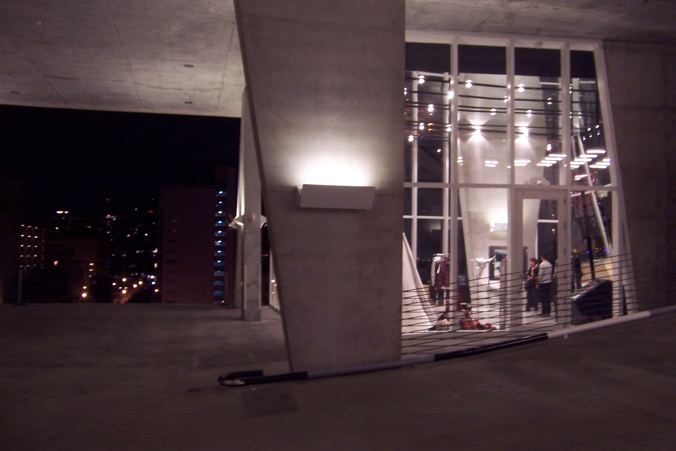 The Alchemist boutique, located on one side of the fifth floor of the architecturally acclaimed parking garage 1111 Lincoln Road in South Beach.